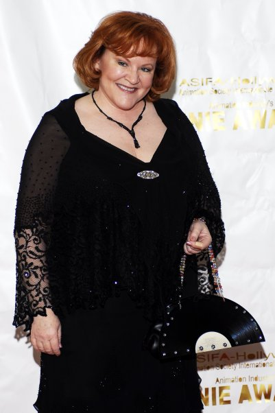 Edie McClurg at the 2006 Annie Awards red carpet at the Alex Theatre in Glendale, California.